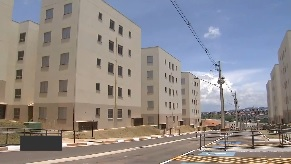 Salgueiro Pernambuco, Brazil